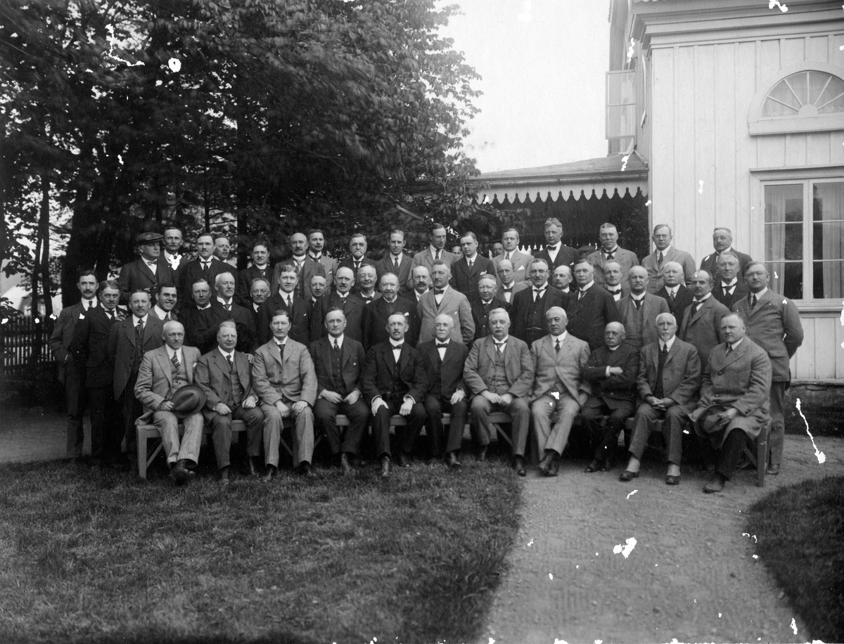 Halmstads konstmuseum T011462 Visar: Ahlberg, Ahrne?, Aronsson Bernhard, Berggren Carl, Berggren Pehr, Bissmark Georg, Carlsson Pehr Magnus, Collett Eugen, Englund Ernst Oskar, Fogelklou Ernst, Granqvist Valfrid, Gustafsson Wilhelm, Hammar Carl, Hansson Hj., Hellner, Hillgård Karl, Husberg Erik, Jepson Oscar, Johansson Alfred, Jönsson Peter, Kihlberg C. O., Kindblom? Herman, Klintin, Larsson Viktor., Lindelöf Janne, Löfgren, Mörner Axel, Nordlöf Carl, Nyström Magnus Pehrsson Tage, Persson Olof, Petersson (Hansons Järn), Richardson Janne, Rohman Eric, Scholander Carl, Schéle Th., Sjögren Johan, Stehn Tord, Svensson (Falckens) Martin, Wallin Wennerholm Ivar, Zethreus S. O., Åberg Sten